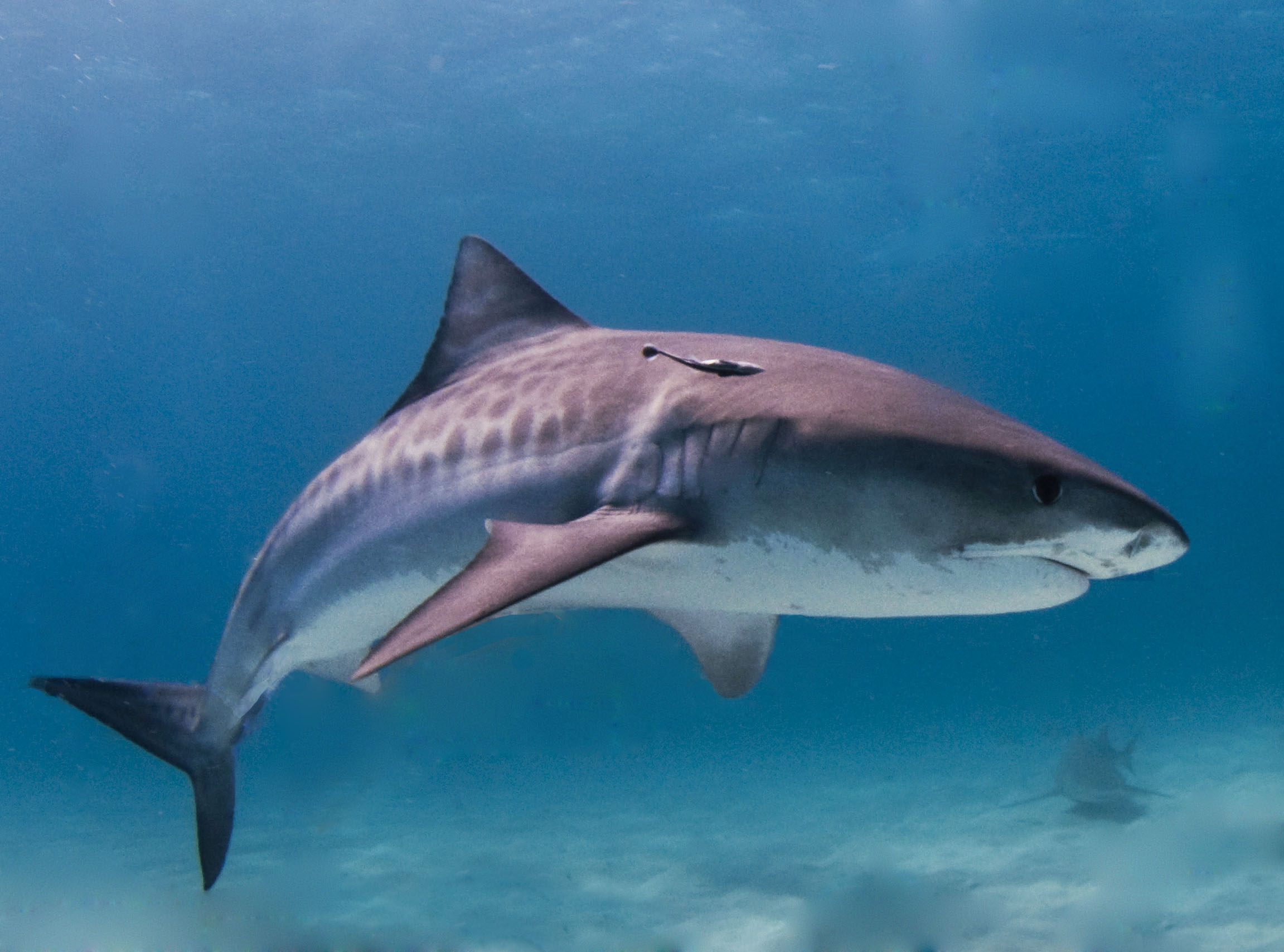 Tiger shark bahamas